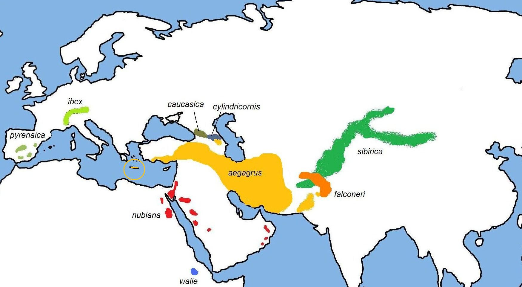 Range of the species of the genus Capra From top left to bottom right: Capra pyrenaica Capra ibex Capra caucasica Capra cylindricornis = Capra caucasica cylindricornis Capra aegagrus = Capra hircus aegagrus Capra nubiana Capra walie Capra falconeri Capra sibirica